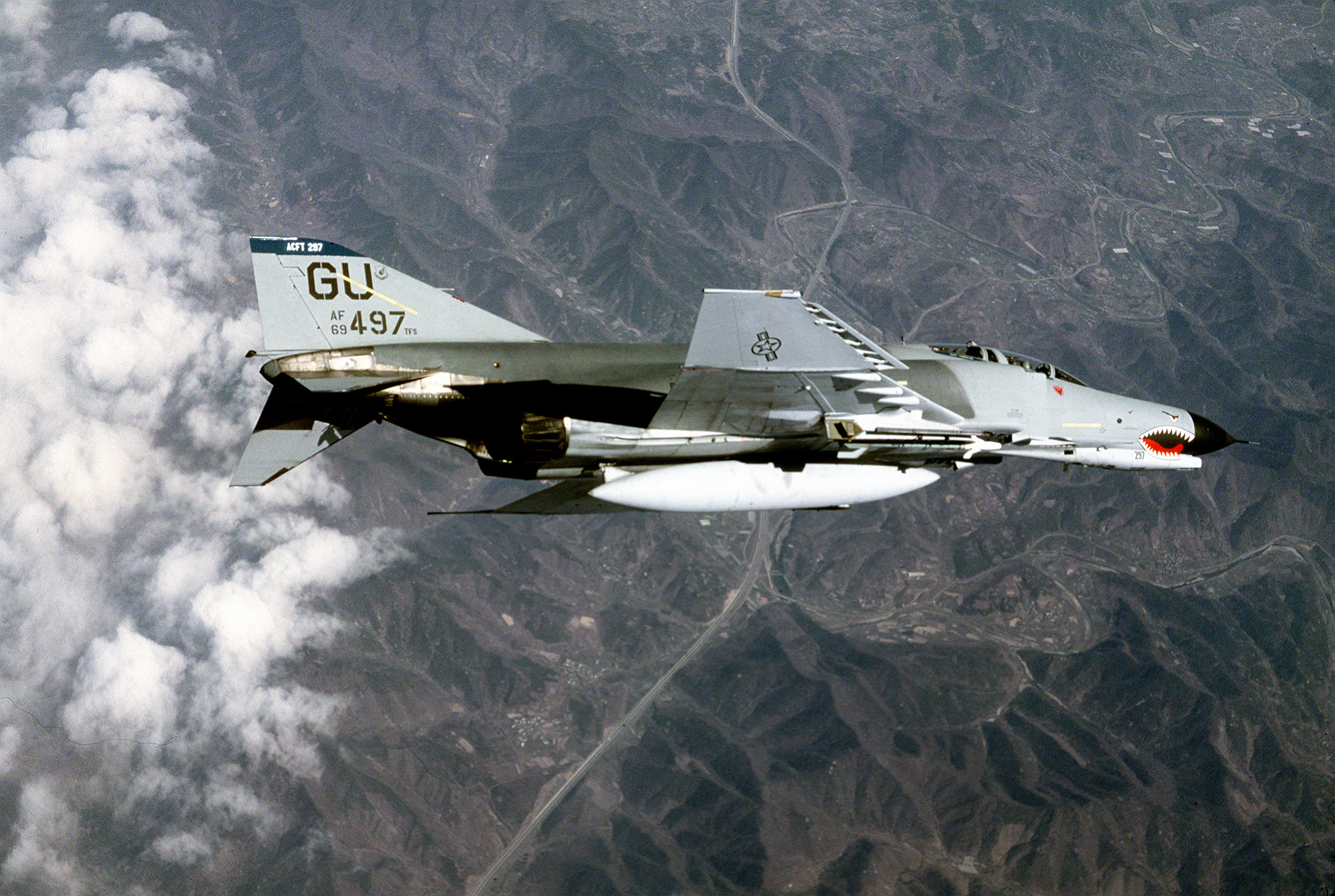 A U.S. Air Force McDonnell Douglas F-4E Phantom II from the 497th Tactical Fighter Squadron, 51st Tactical Fighter Wing, banking to the left over South Korea during exercise "Team Spirit '86".